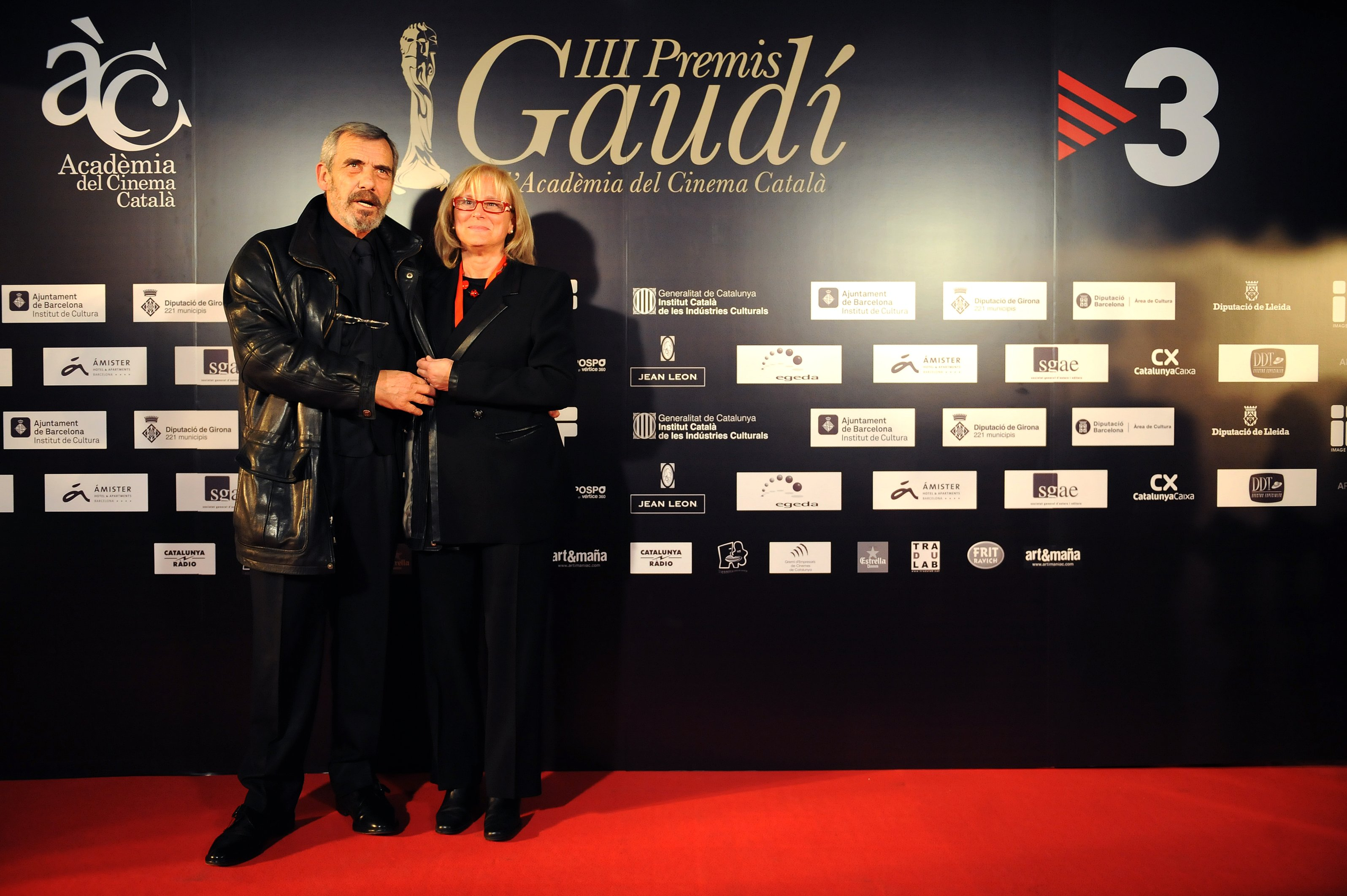 Photo of Joan Crosas in the soiree of Gaudí Awards 2011